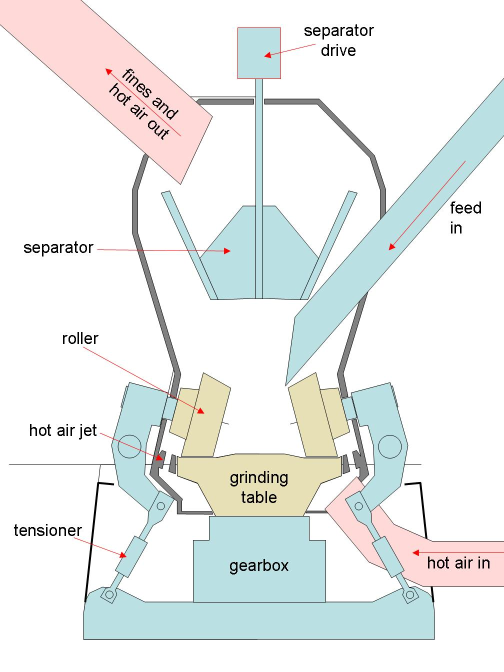 Simplified drawing of the layout of a typical roller mill used in the production of raw mix in cement manufacture.